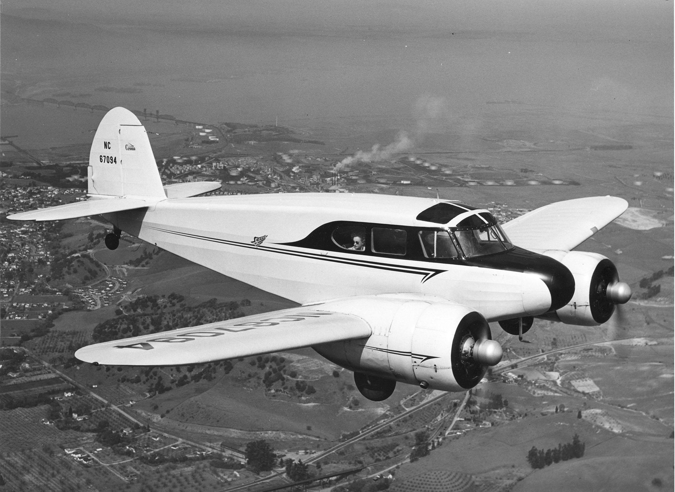 Over Martinez, CA on March 16, 1947.